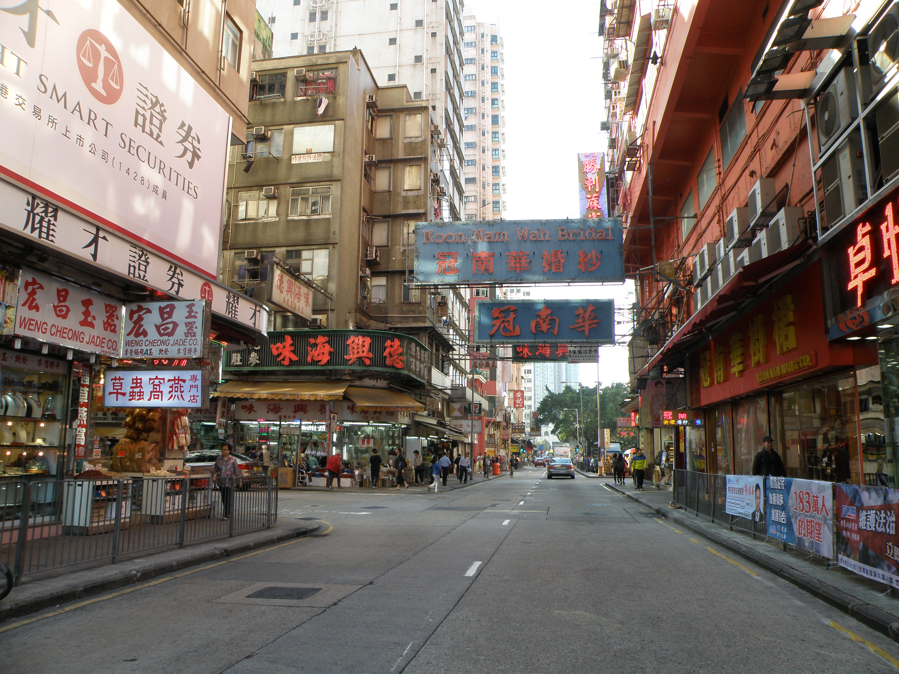 Kansu Street in Yau Ma Tei, Hong Kong.